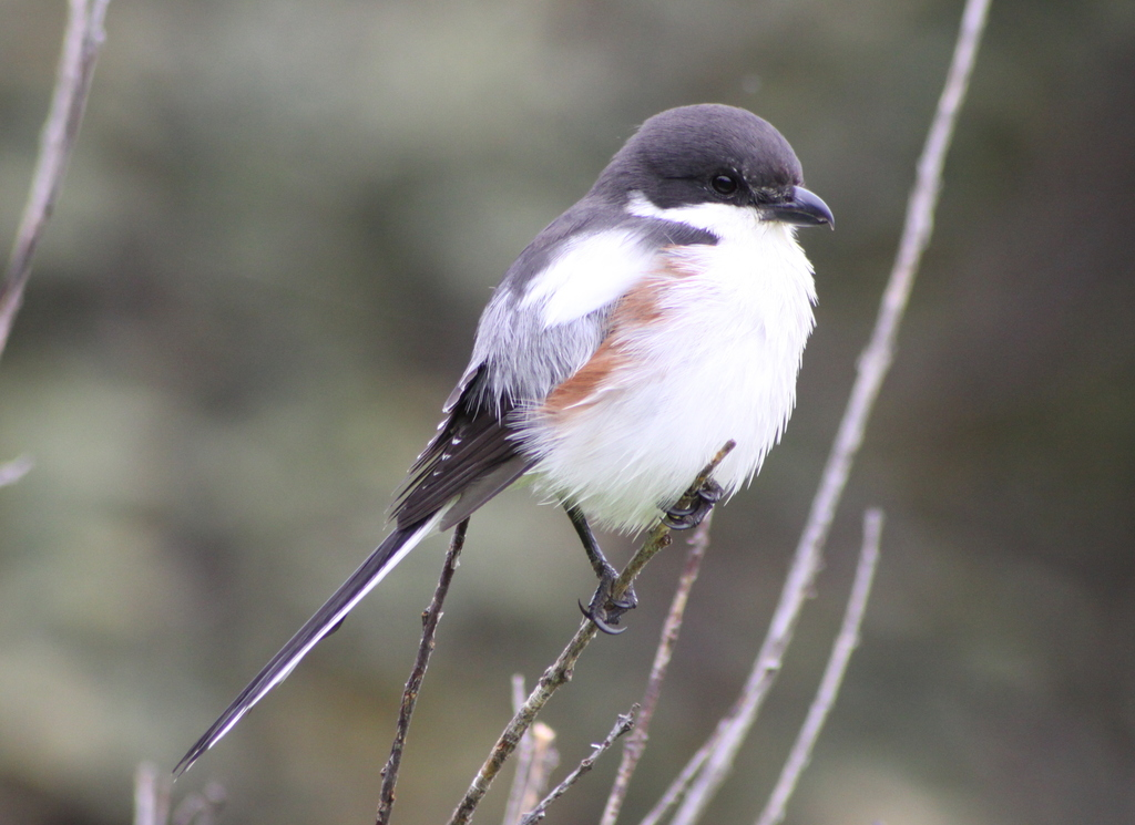 Shrike at Walter Sisulu National Botanical Garden in Johannesburg, South Africa